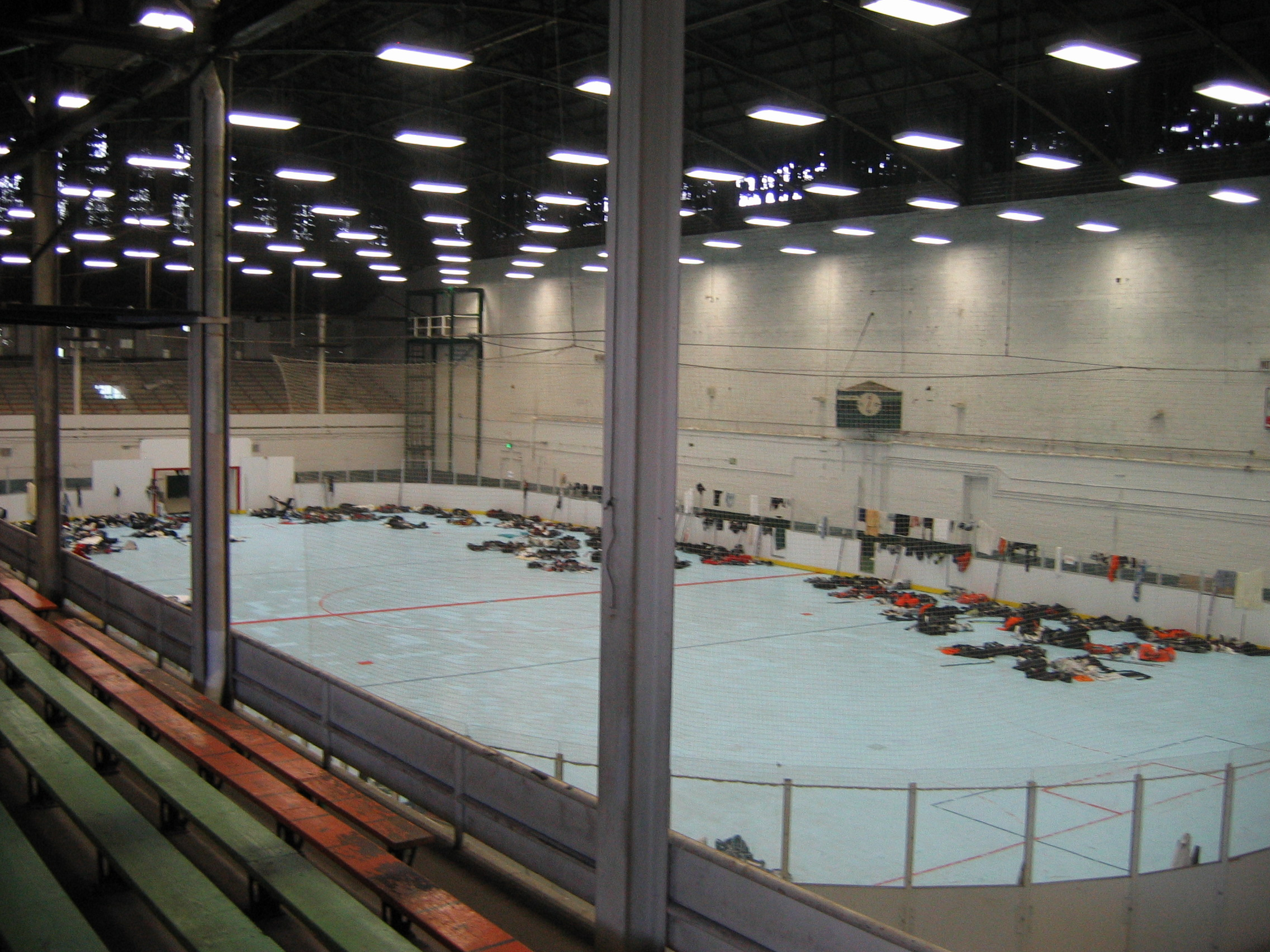 Football & Basketball Facilities Michigan State Gym